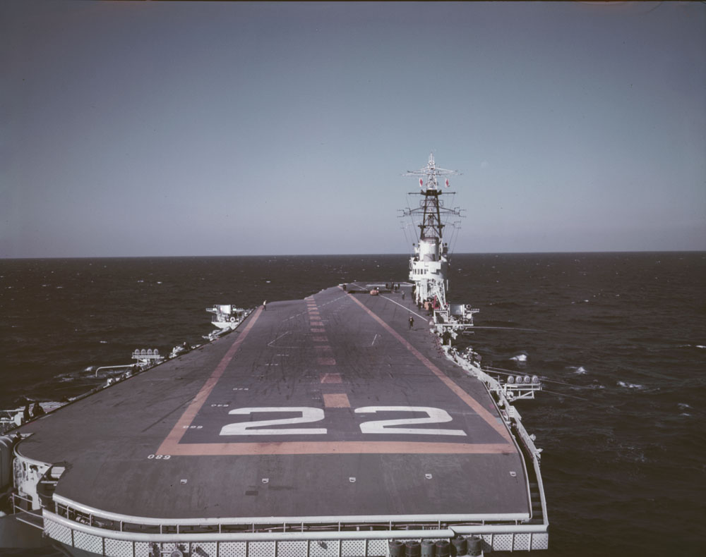 HMCS Bonaventure Aft Flight deck Oct 13/57.